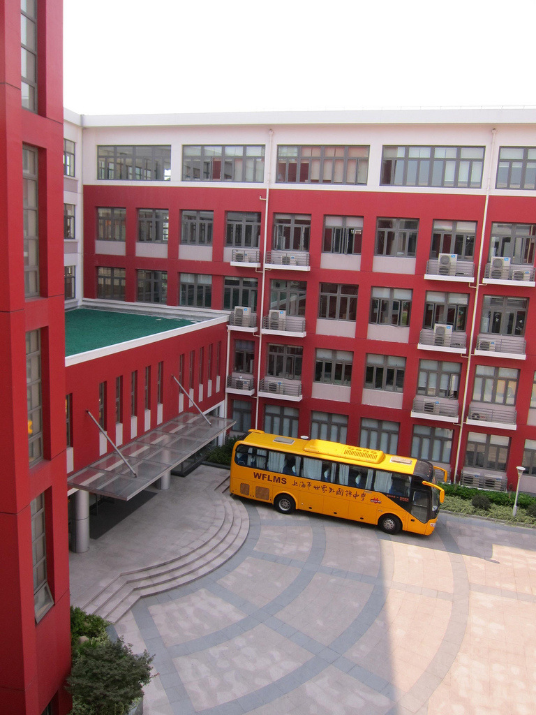 World Foreign Languages Middle School Home Campus entrance, Shanghai, China